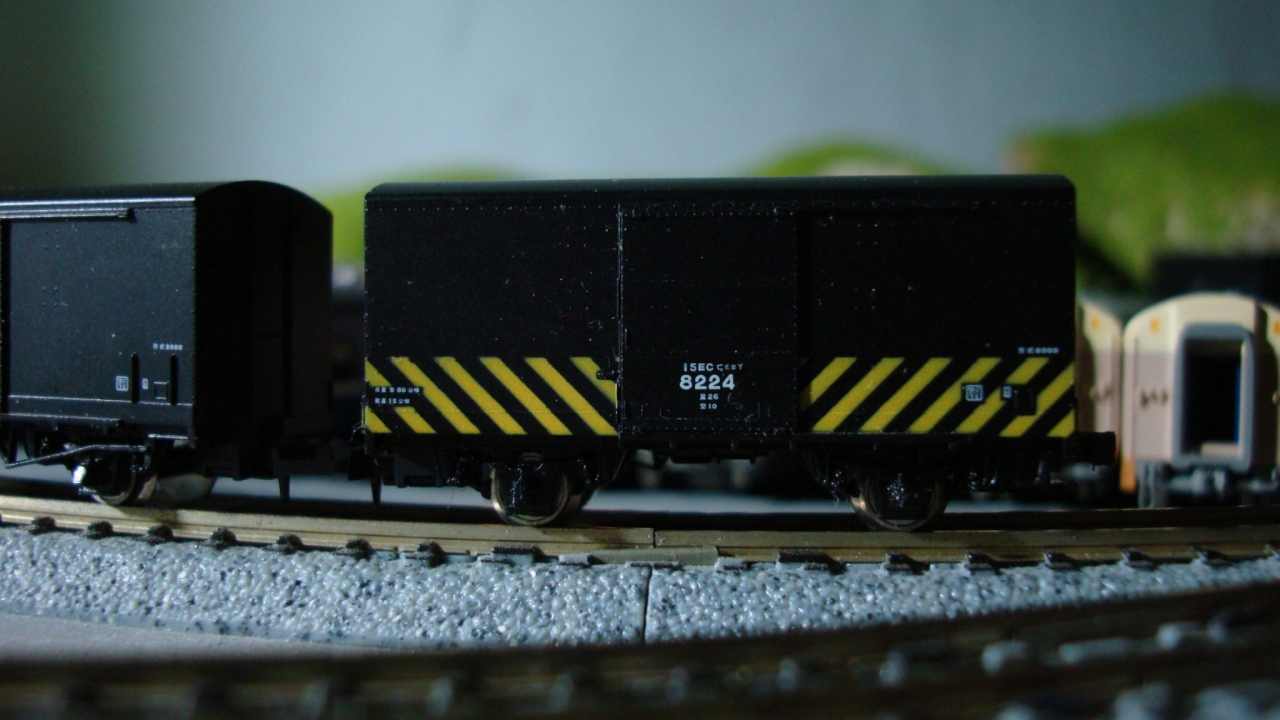 TRA 15EC8000 N-SIZE MODEL OF Touch-Rail Models CO.,Ltd 中文（台灣）: 鐵支路模型的貨車之一，台鐵搶修車15EC8000型